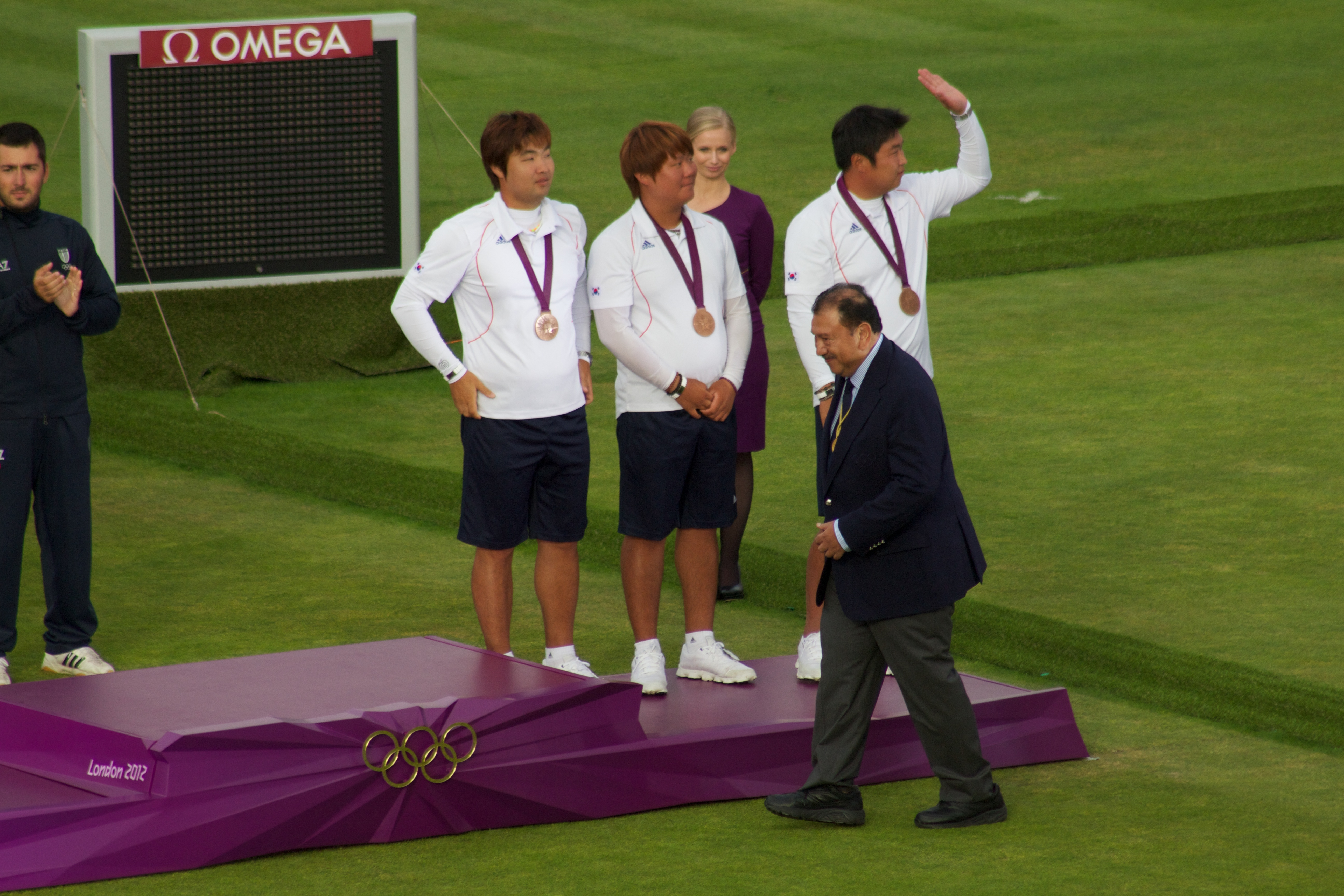 From left to right : Im Dong Hyun, Kim Bub Min and Oh Jin Hyek